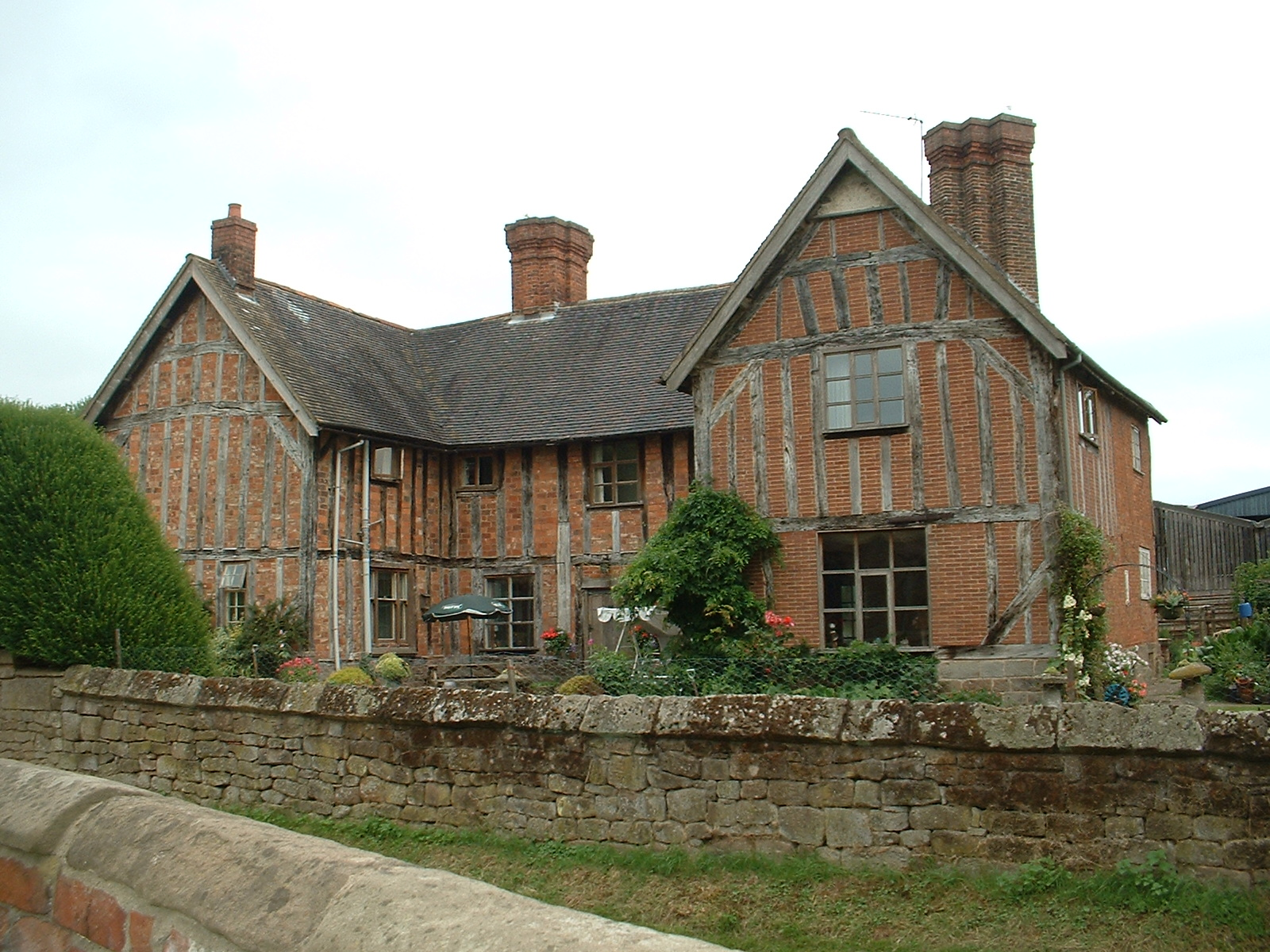 The Moat House (16th century), Meriden, West Midlands, (historically Warwickshire), England. Taken by Necrothesp, 31 July 2005.